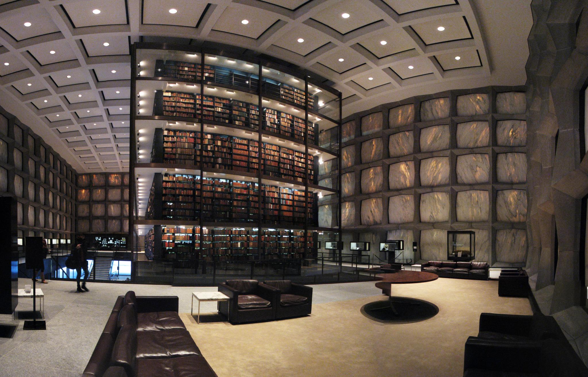 Beinecke Rare Book and Manuscript Library Designed by SOM in 1963 To emphasize the beauty of these rare books, they were set up to be the centerpiece of the building. All the books were placed around the core like a large display case. The exterior skin is composed of thin marble panels that allow light to show through but not damage the books. Best viewed large.